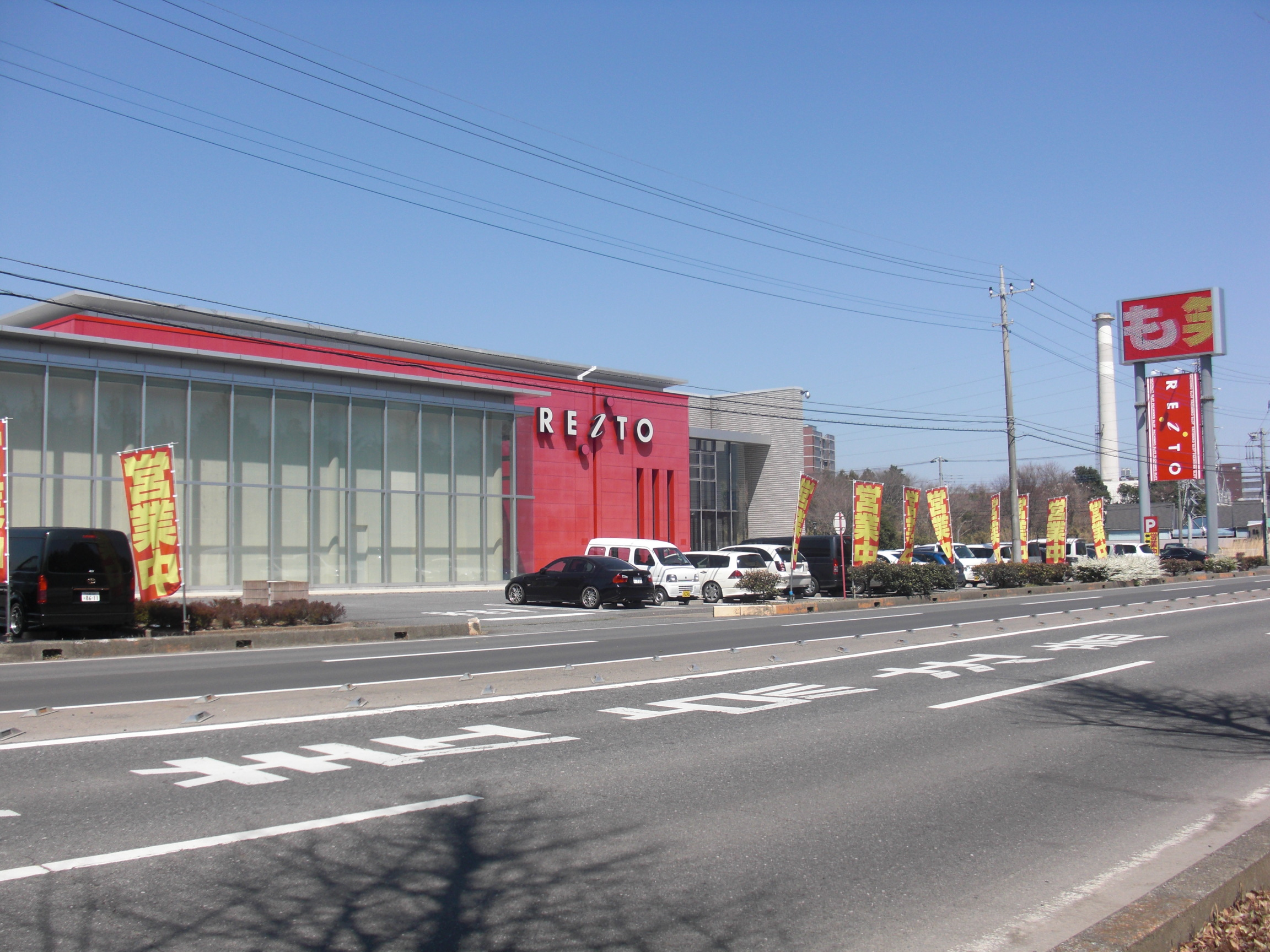 This is a pachinko shop which is in Tsukuba, Ibaraki ,Japan.